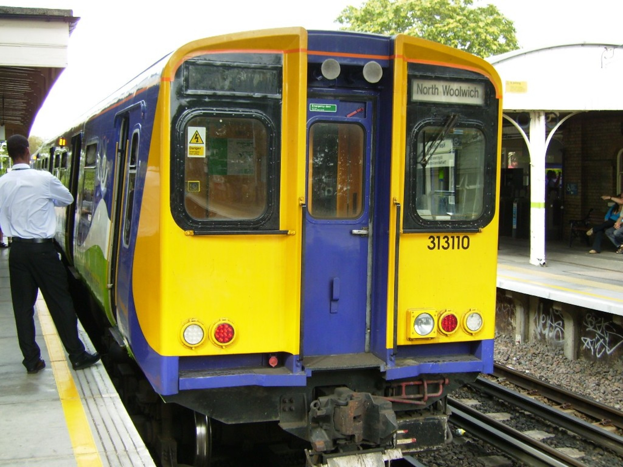 A BR class 313 train at Kew Gardens, serving the North London Line for Silverlink, bound for North Woolwich. Author: Myself, Erik Iversen